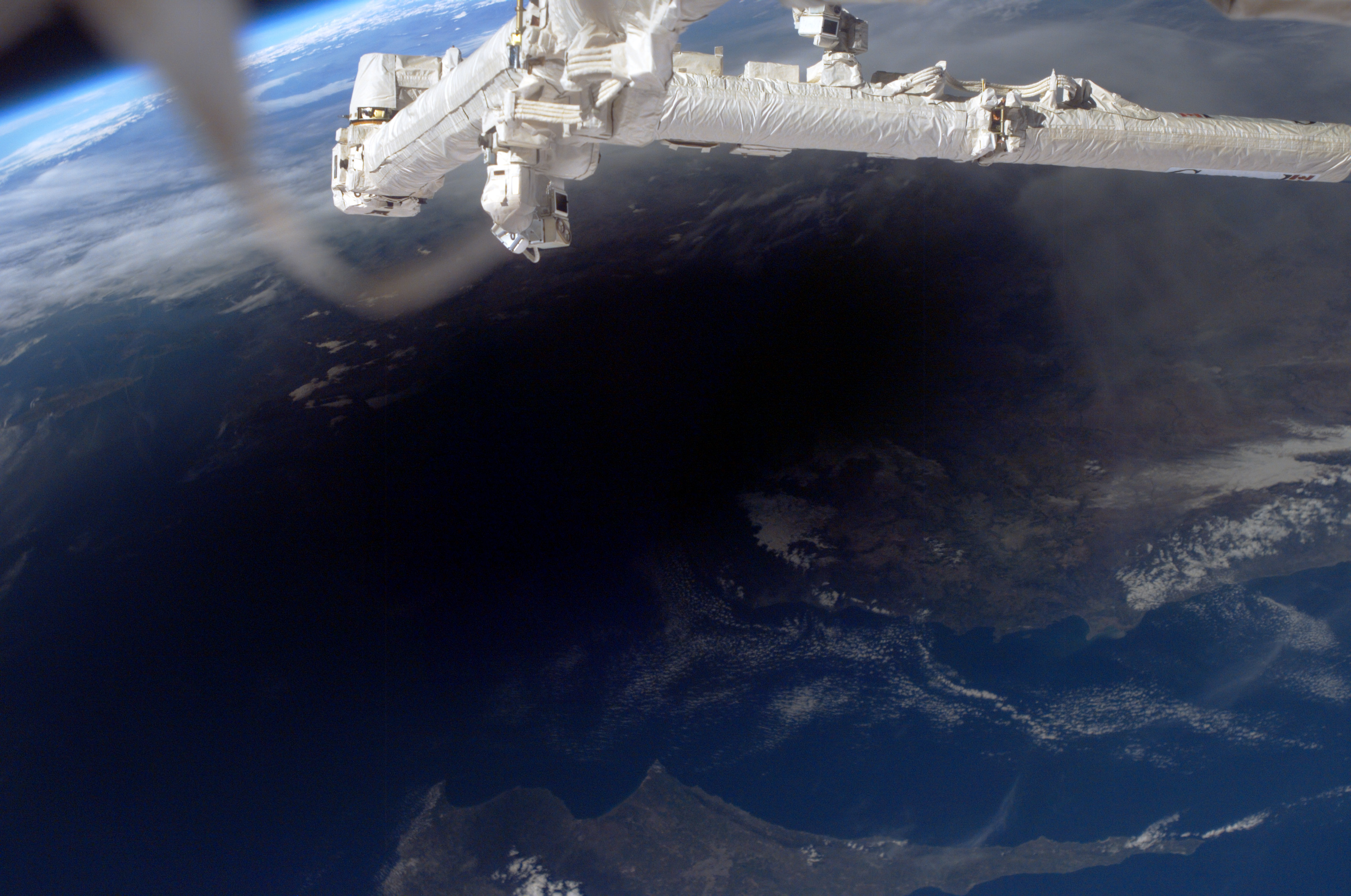 Solar eclipse, as seen from the International Space Station over Turkey and Cyprus. The shadow is centered at approximately 36°42'54"N 32°18'58"E